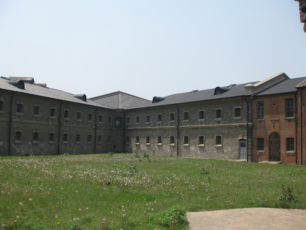 Difference of main constructure of Lvshun Russian and Japanese Prison. The grey part built by Russians in 1902, the red one by Japanese in 1907 中文（中国大陆）: 旅顺日俄监狱主建筑，灰砖部分为1902年沙俄所建，红砖部分为1907年日本所建